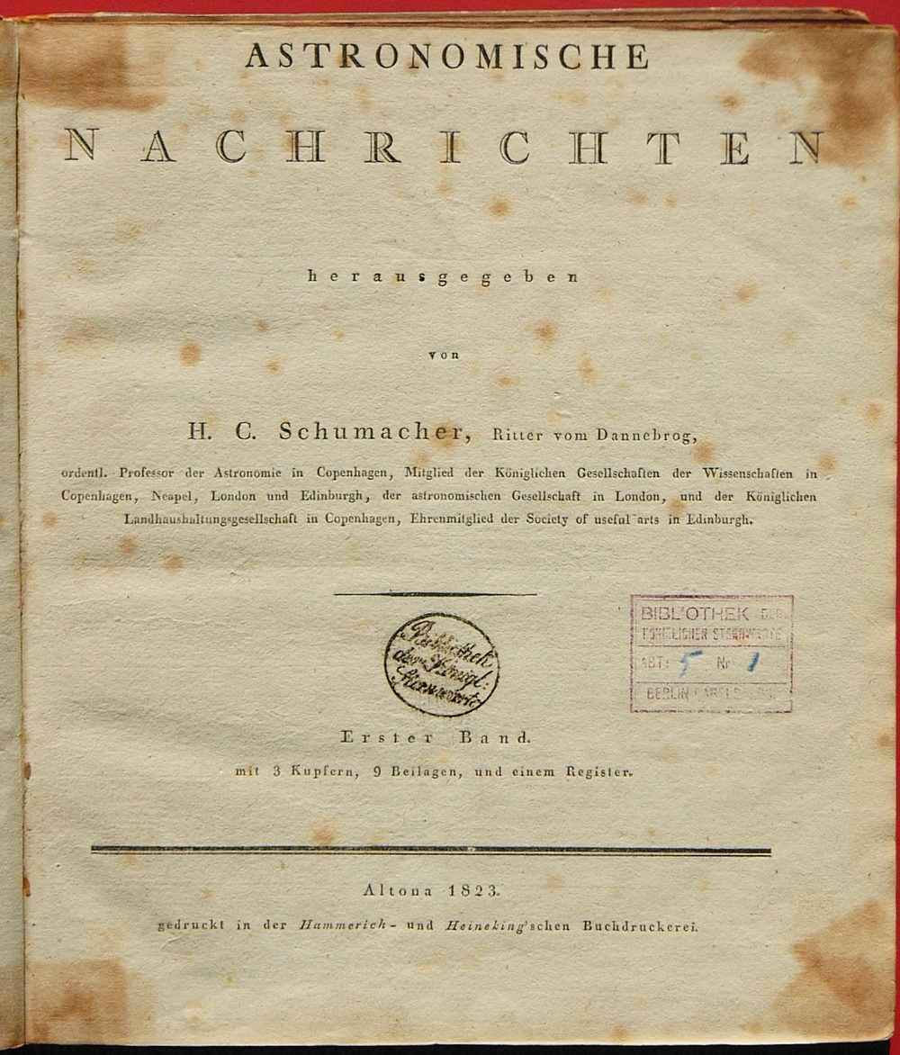 The title page of Astronomische Nachrichten, first issue of 1823